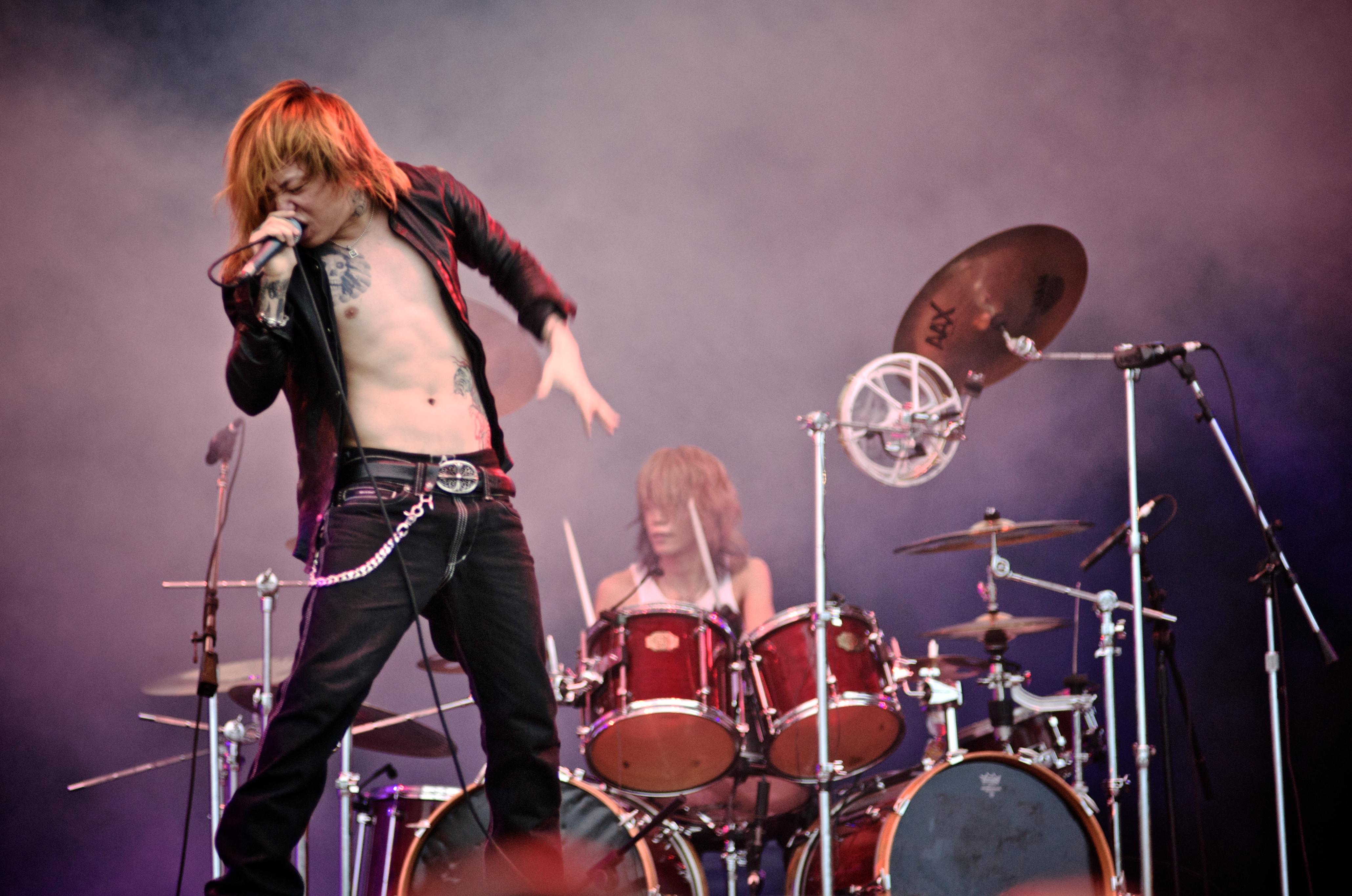 Dir En Grey in Maquinária Festival, occurred in November 8 2009 at São Paulo, Brazil.